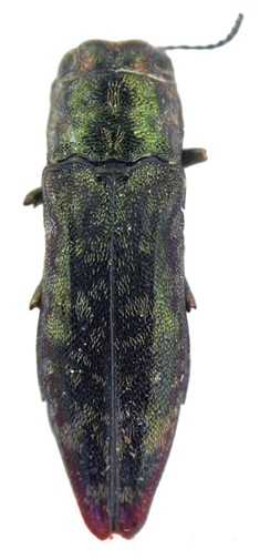 Agrilus oblatus Kerremans 1900, lectotype.